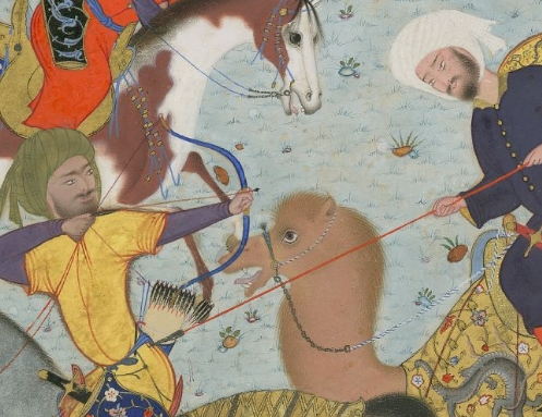 Illustration from Haft Awrang, Chain of Gold, folio 65a